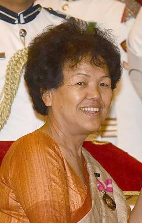 President Ram Nath Kovind felicitates Bachendri Pal with Padma Bhushan